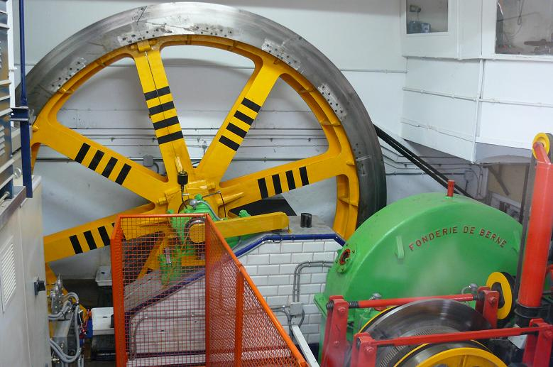 Funicular de San Joan in Montserrat (machinery)